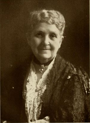 Virginia Sarpy Peugnet, Kandeler Photo, Johnson, Anne (André) "Mrs. Charles P. Johnson", 1871-. Notable women of St. Louis, 1914; (Kindle Location 4402). [St. Louis, Woodward.]